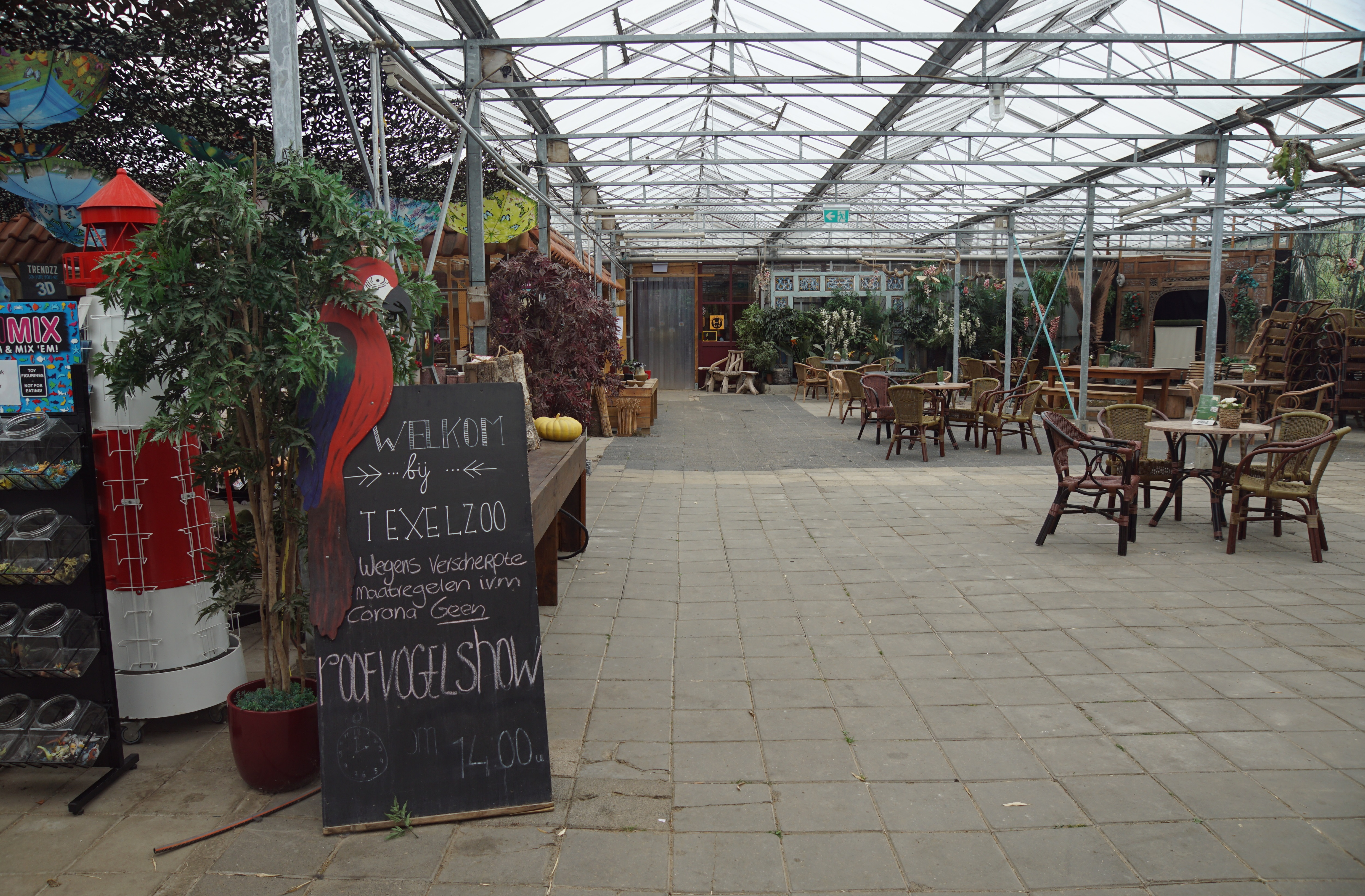 Texel Zoo, Texel, The Netherlands. Entrance hall.